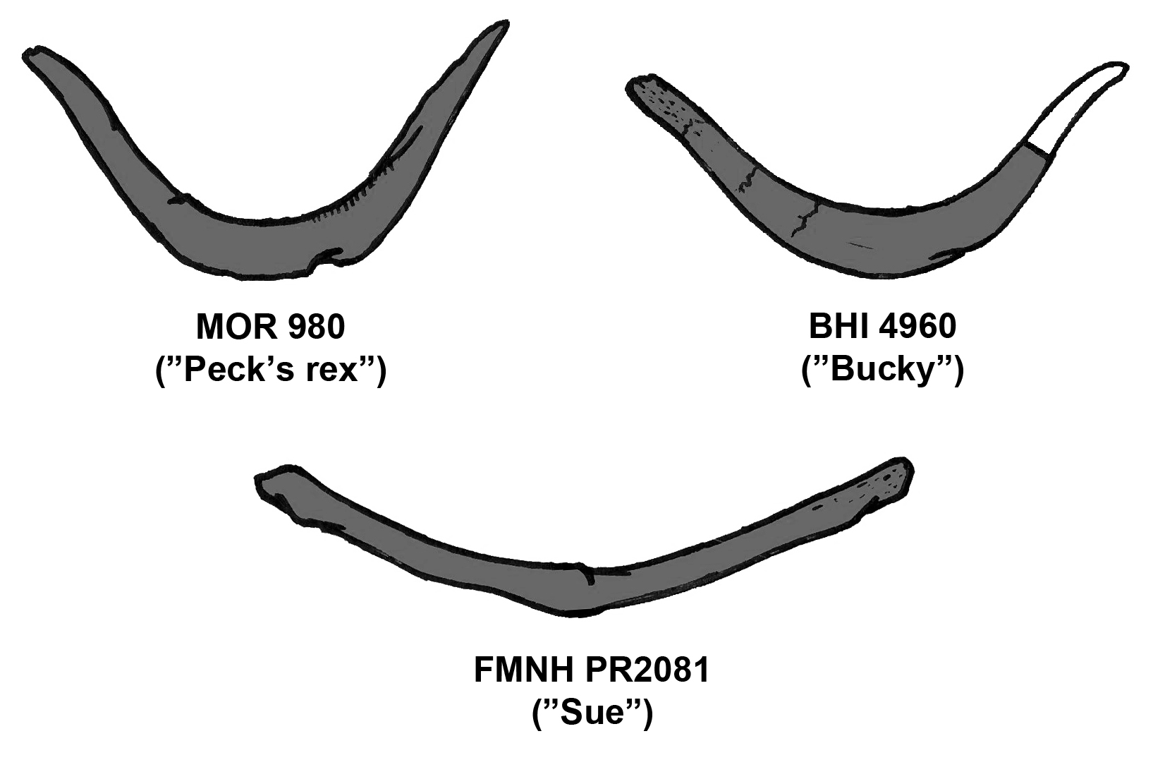 Comparisons of the furcula ("whishbone", or fused collar bones) from three different specimens of the theropod dinosaur genus Tyrannosaurus. Note the variation in shape between specimen FMNH PR2081 ("Sue") and the other two.